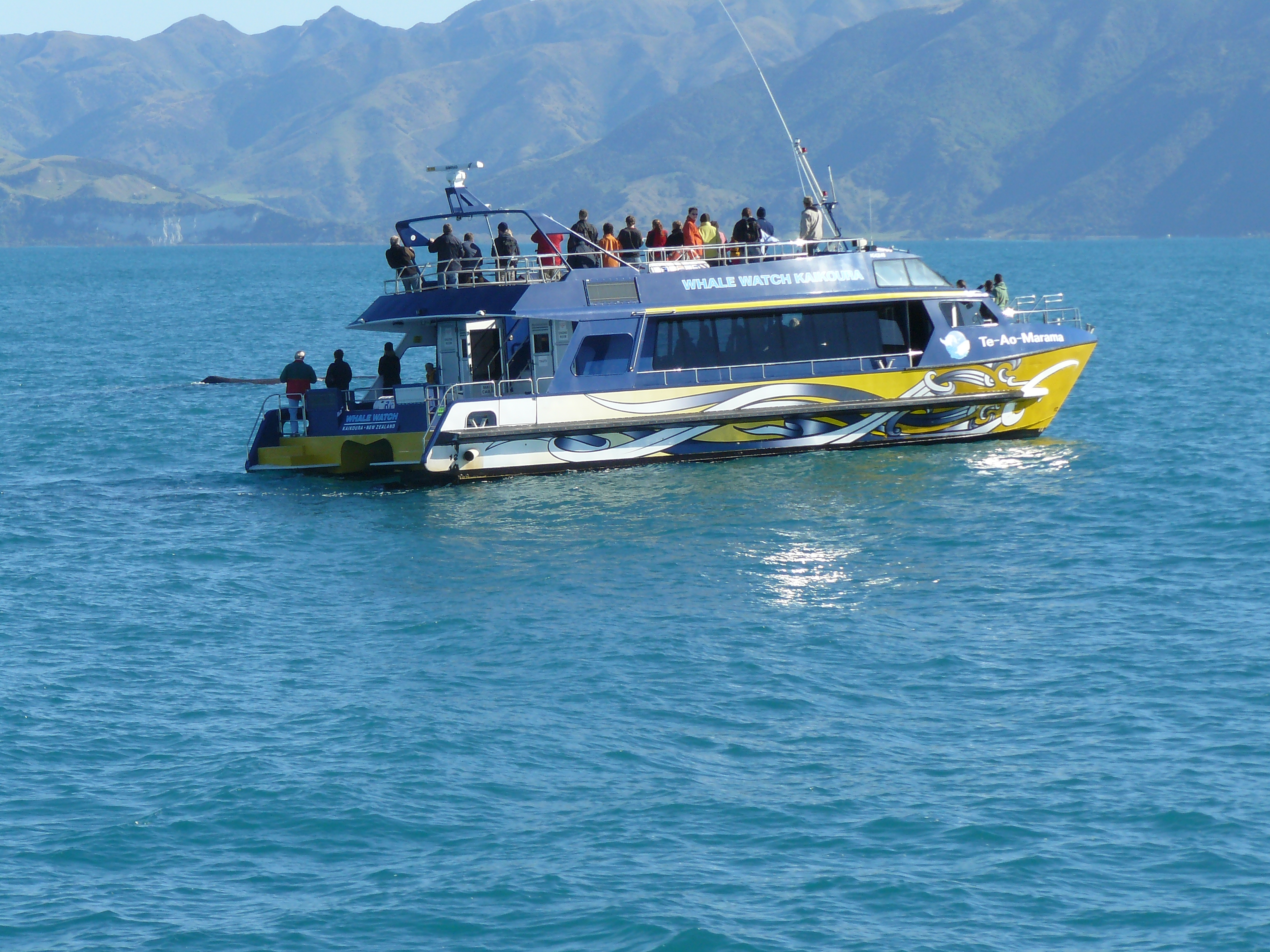 Whale watching in Kaikoura